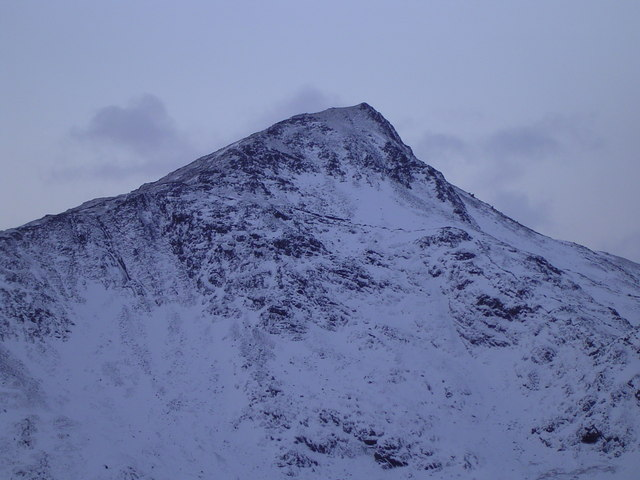 Yr Aran, near to Bethania, Gwynedd, Great Britain. Yr Aran ,taken from the Watkin path.